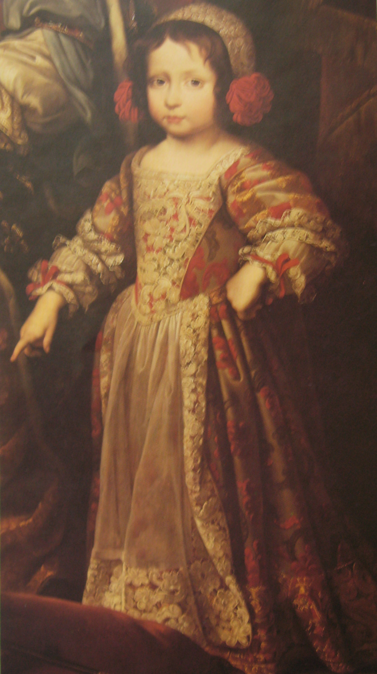 Detail of a portrait of Louise de La Vallière (Françoise Louise de La Baume Le Blanc; 6 August 1644 – 7 June 1710), a mistress of Louis XIV of France from 1661 to 1667. She later became the Duchess of La Vallière and Duchess of Vaujours in her own right. (The painting was originally known as Elisabeth Charlotte de Bavière, Duchess of Orléans, and Her Children.)